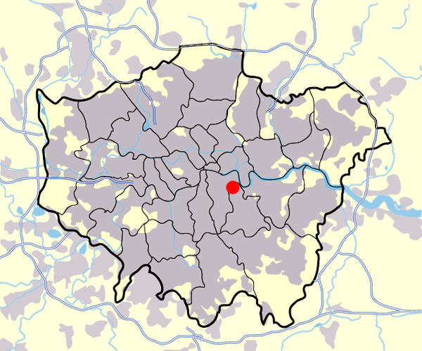 New Cross locator map, in London